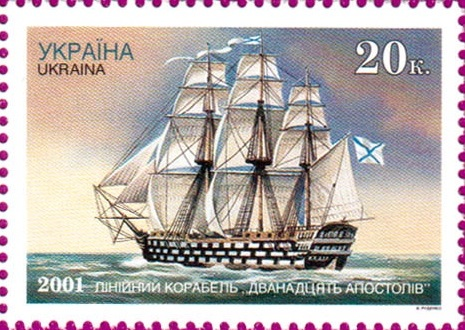 Stamps of Ukraine, 2001